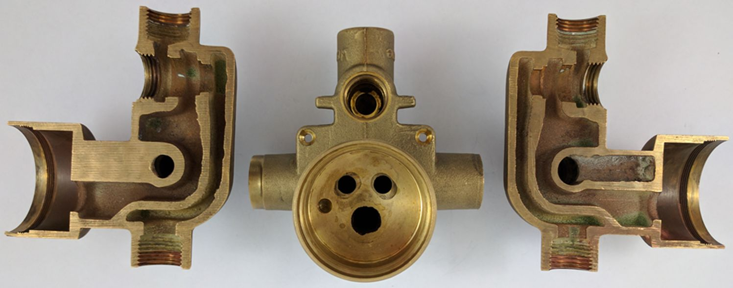 Mixing faucet/Tap for shower/bathtub. In the middle is a complete piece, the two halves are on the left and right. The hot/cold water enters from the left/right side, gets mixed at the (not shown) mixing attachment, and the mixed water goes up (to the shower) or down (to the tub). Lots of undercuts created with lost cores in sand casting. See also File:Mixing Tap explained.jpg for explanation of flows